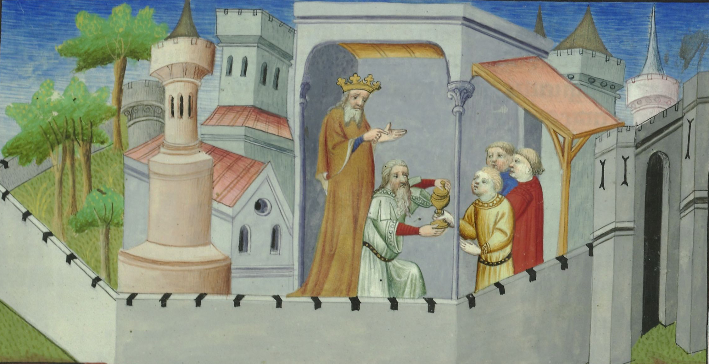 Alâ al Dîn Muhammad, Nizārī imam (1221—1255), drugging his disciples. The Travels of Marco Polo. Folio 17r.